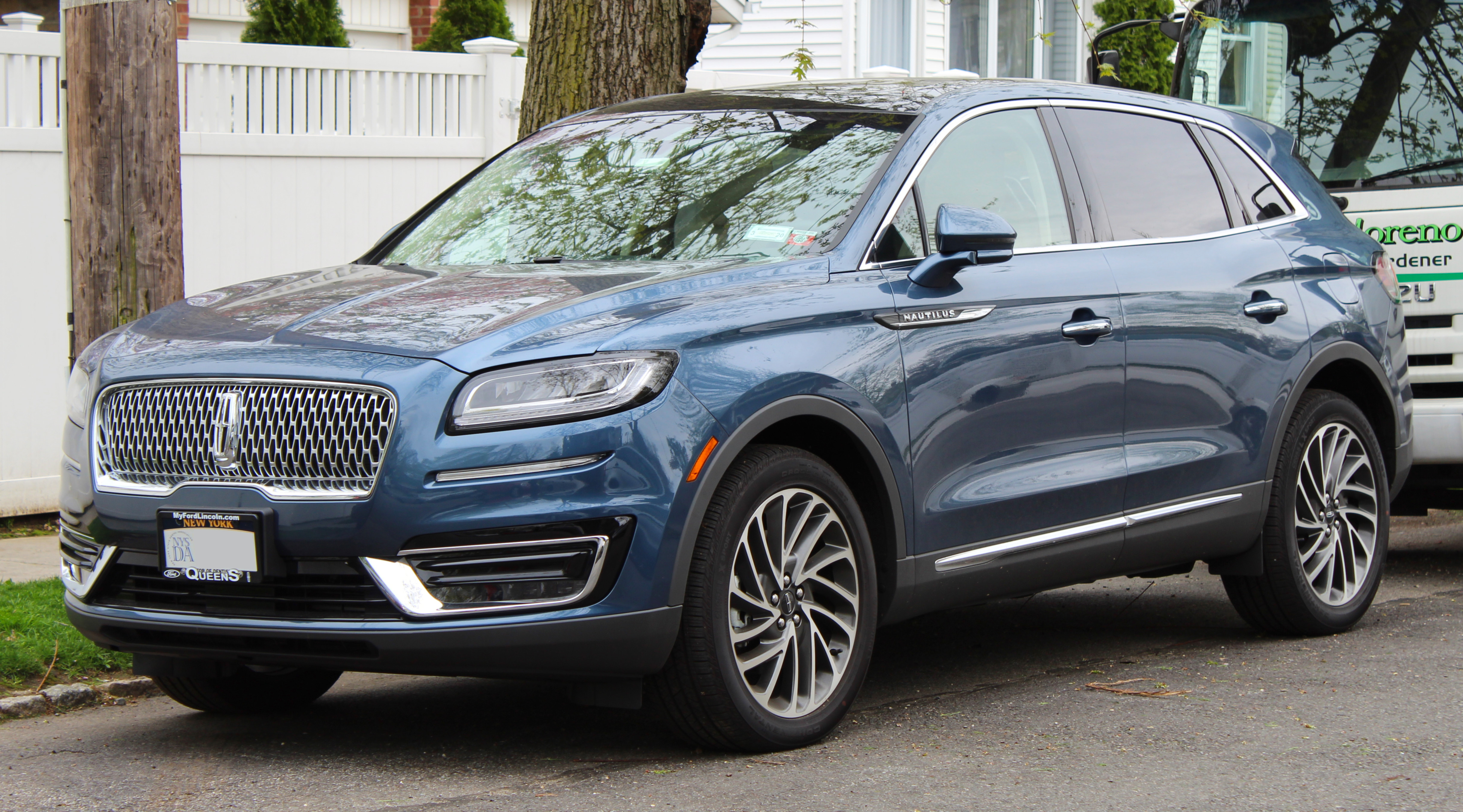 A 2019 Lincoln Nautilus photographed in Queens, New York, USA